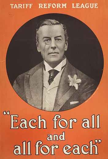 Reproduction of a portrait of Chamberlain? in sepia tones, set in against a burnt orange backgroud, with the title below the picture, and the heading, "Tariff Reform League" at the top. Artist: Unknown Printer: Sir Joseph Causton and Sons Ltd Publisher: Tariff Reform League Place of Production: London Date: c1905-c1910 Persistent URL: misc 0519/80')